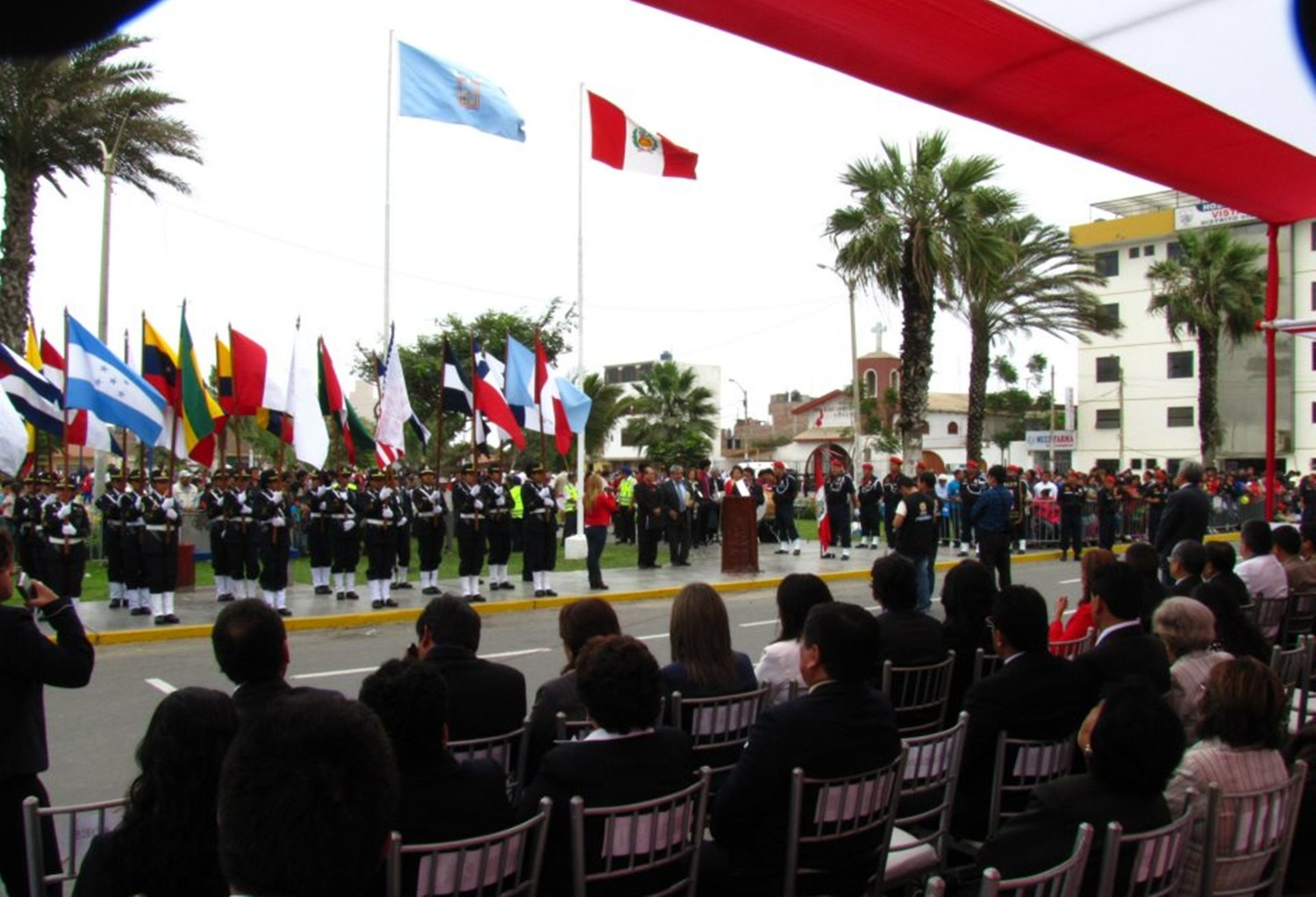 Ceremonia de Celebración cívica en la Plaza principal de Vista Alegre, en el distrito de Víctor Larco Herrera